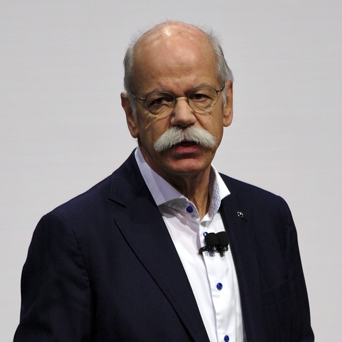 Dieter Zetsche at Geneva Motor Show 2019